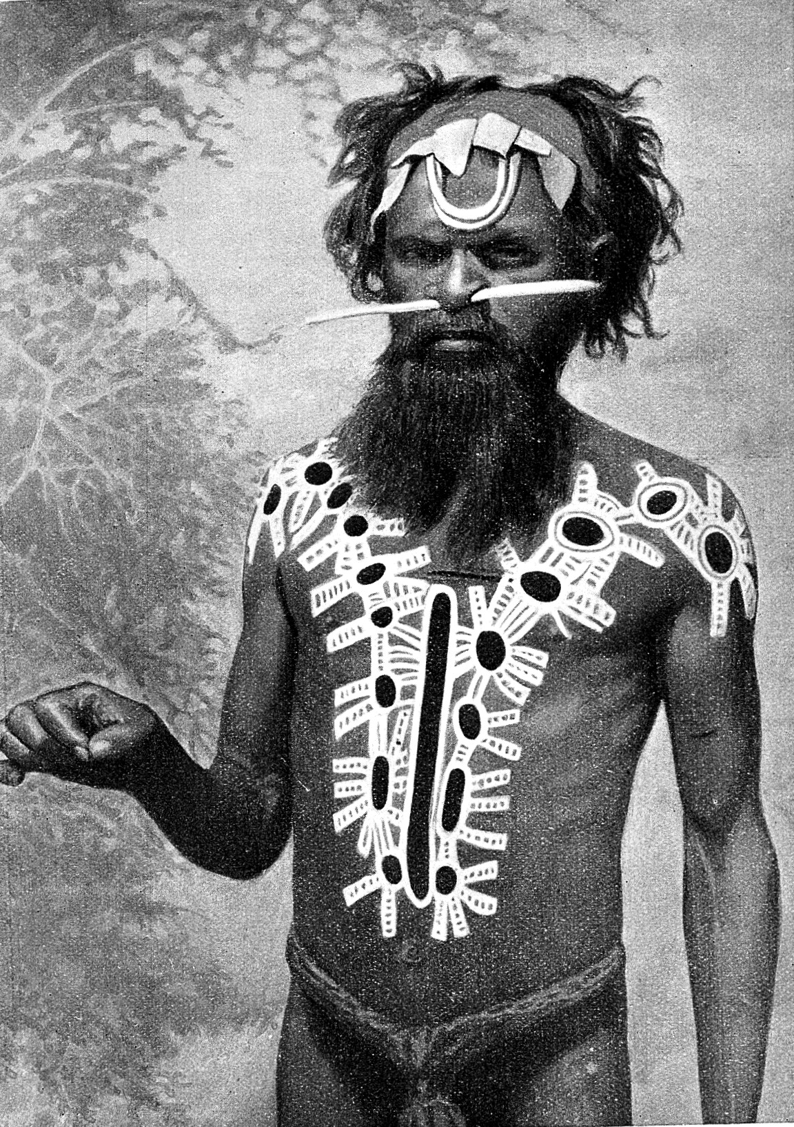 Australian medicine man with magic healing crystal. General Collections Keywords: indigenous non-european medicine; Ethnology